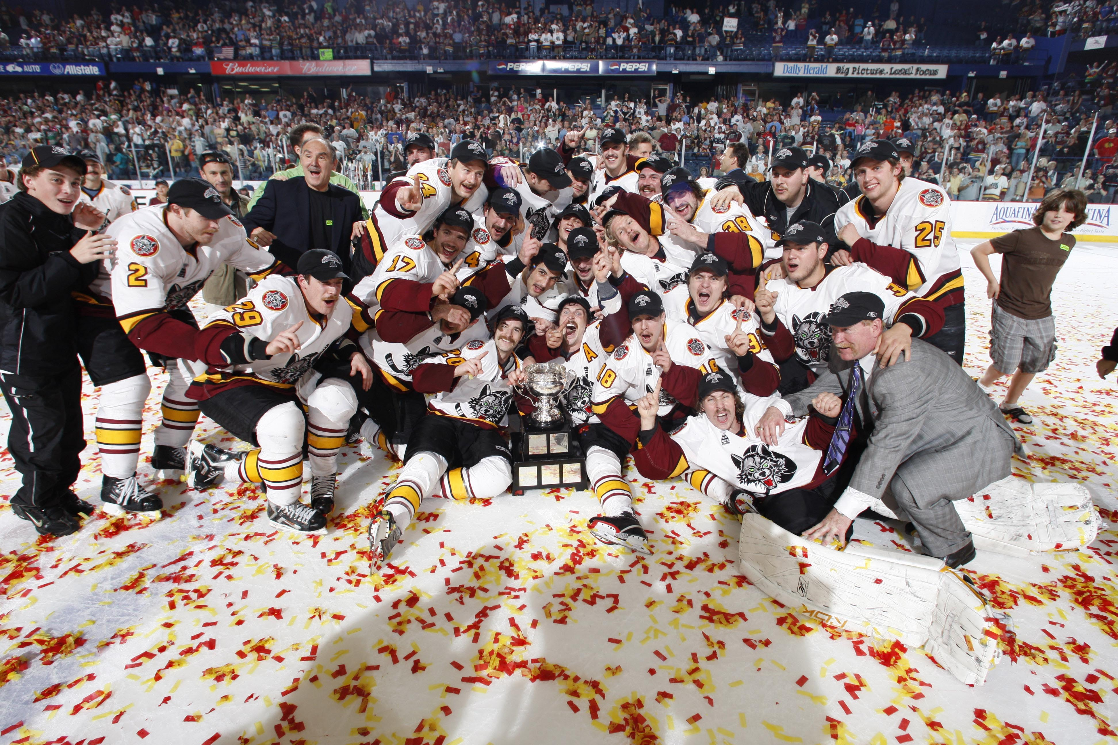 Photo: Ross Dettman